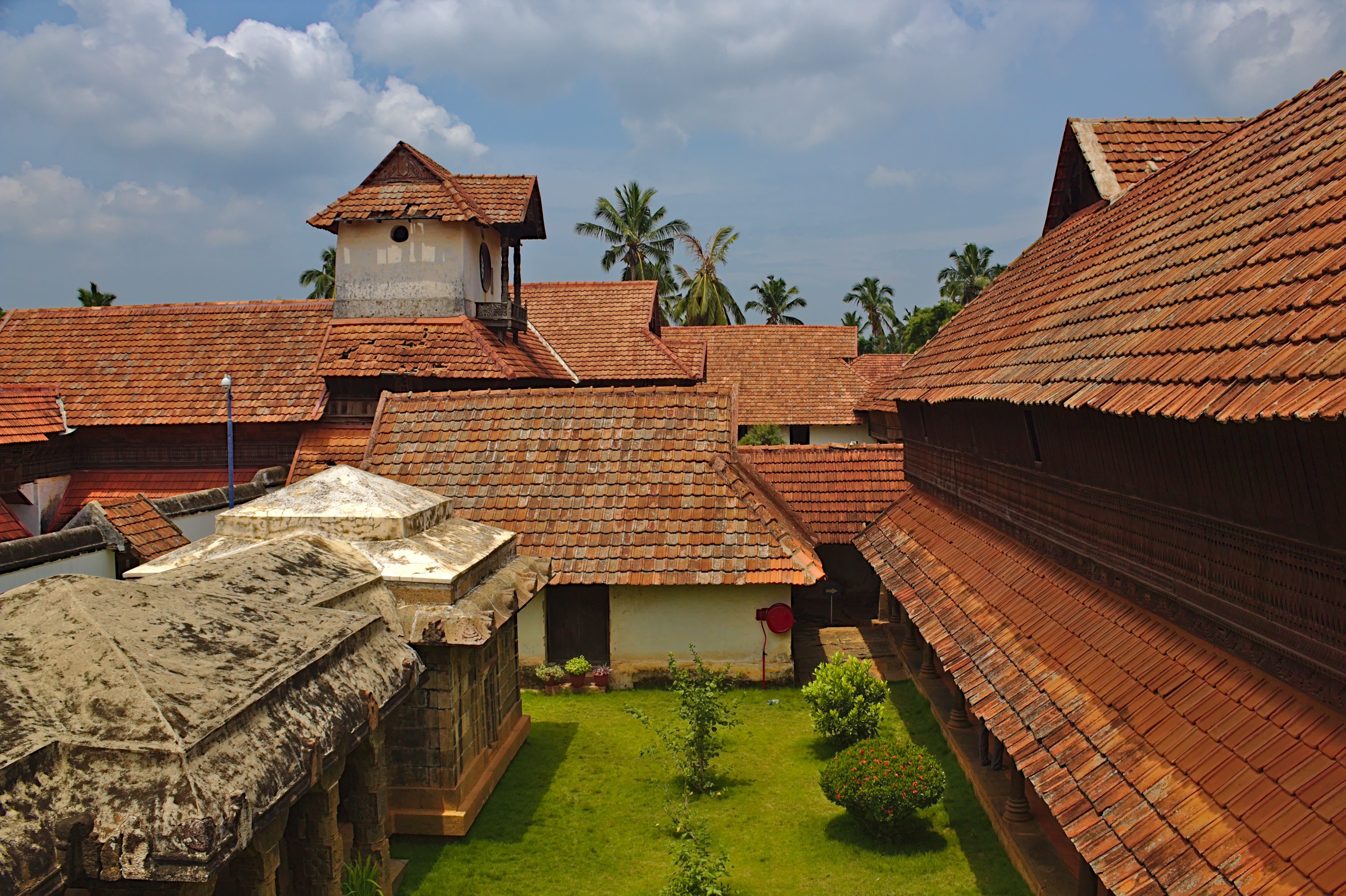 Padmanabhapuram Palace, Clock tower distant view, Padmanabhapuram, Thackalay, Tamil Nadu